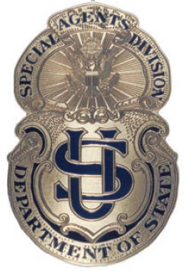 Circa 1916 Special Agent badge of the U.S. Department of State's Bureau of Secret Intelligence (Currenlty the Diplomatic Security Service)